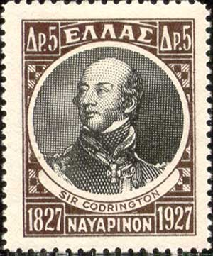 Greece stamp, Adm. Sir Edward Codrington, 100th anniversary of the Battle of Navarino, 5 drachmas, 1927